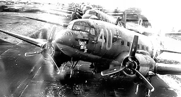 C-47 Skytrain of the 89th Troop Carrier Squadron, 438th Troop Carrier Group, - RAF Greenham Common, England.